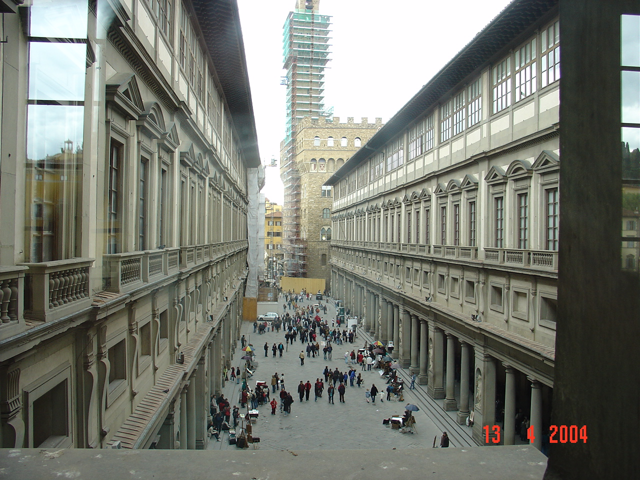 Uffizi Court, Florence, Italy